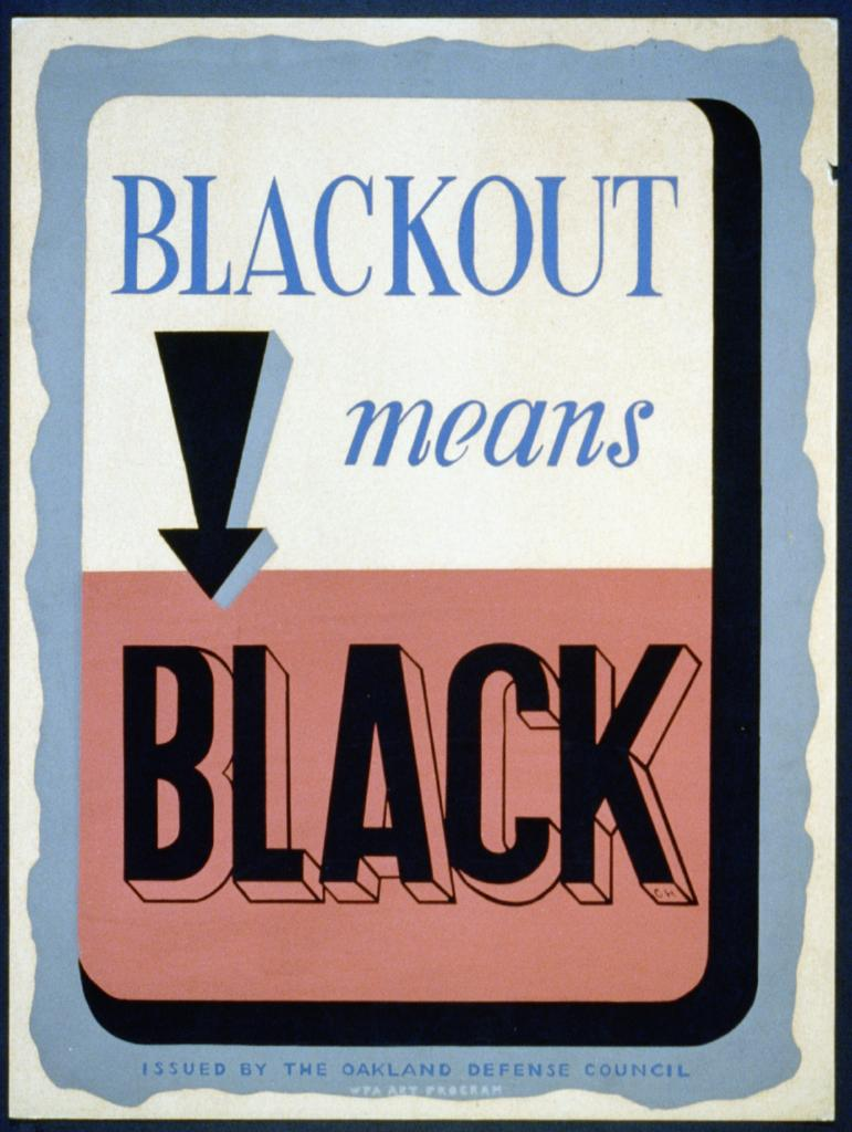 Poster reminding citizens of complete blackouts as a civil defense procedure.